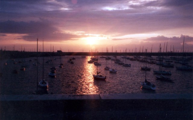 Dún Laoghaire harbour at sunset, Ireland. Taken from the ferry terminal while waiting for a ferryGeographical data: Subject location Irish: O2428 [Accurate to ~1000m]WGS84: 53:17.5348N 6:8.0435W [53.29225,-6.13406]